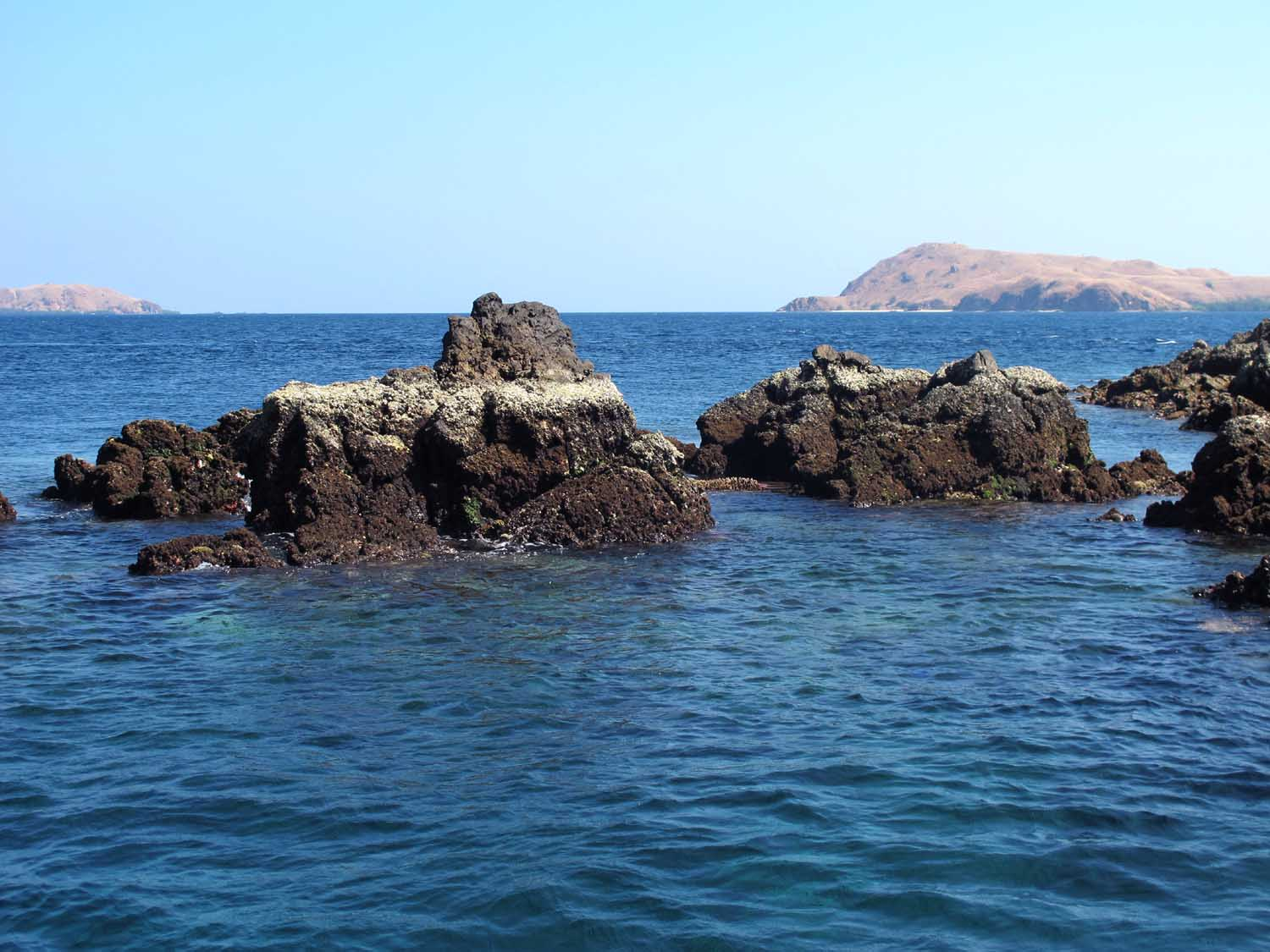 Nusa Tenggara Timur, Indonesia